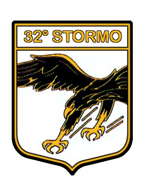 ensign of the 32º Stormo (32nd Wing) of the Aeronautica Militare (Italian Air Force).